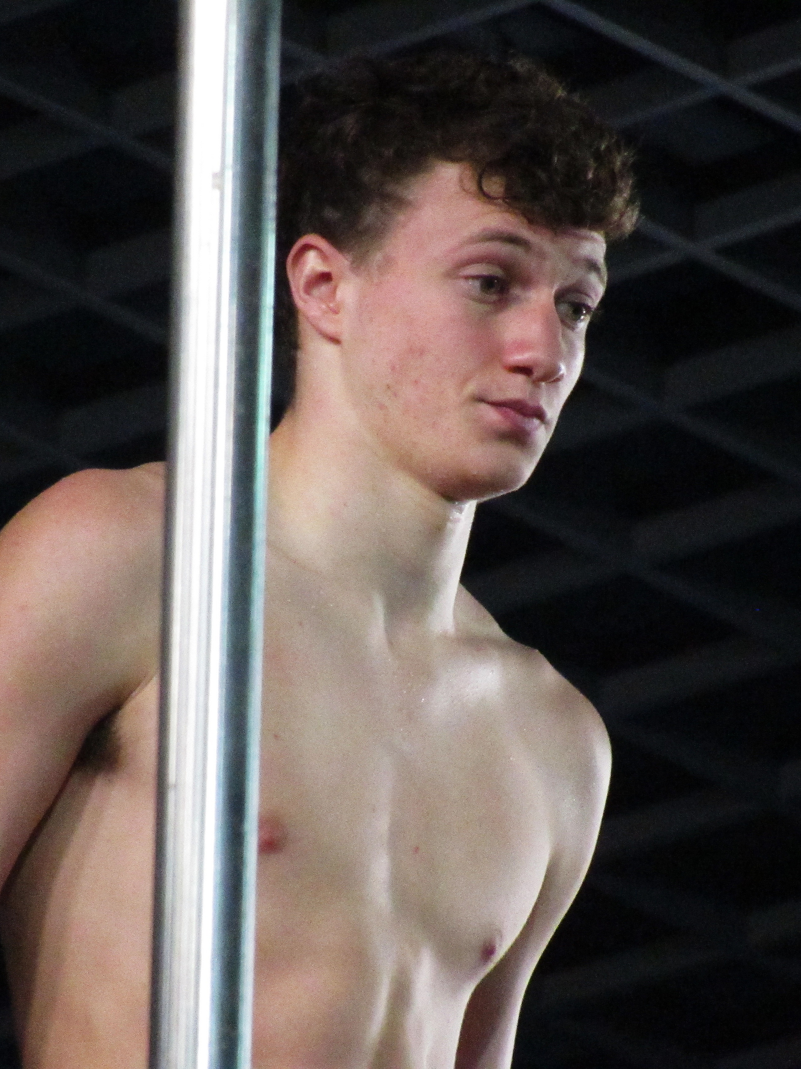 British diver Noah Williams at the 2019 European Diving Championships in Kyiv.